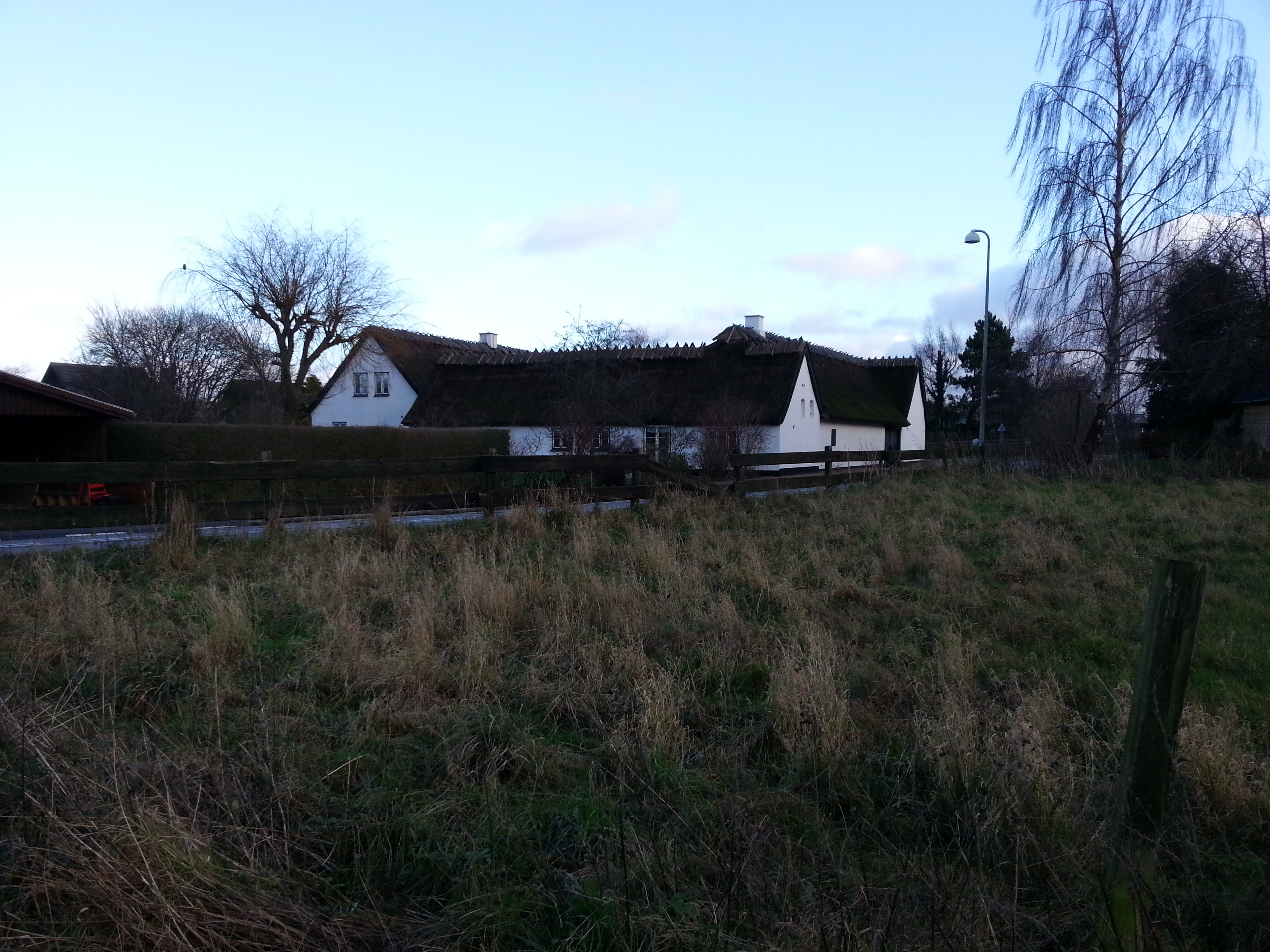 Old farm in Mørdrup (Espergærde), Denmark 2